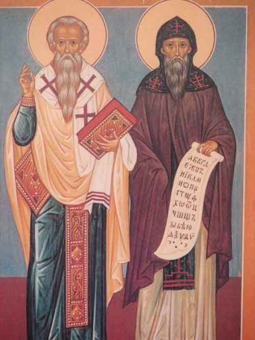 Photo of 20th century icon of Sts. Cyril and Methodius located in the Holy Trinity Monastery, Jordanville, New York; 25K jpg file.